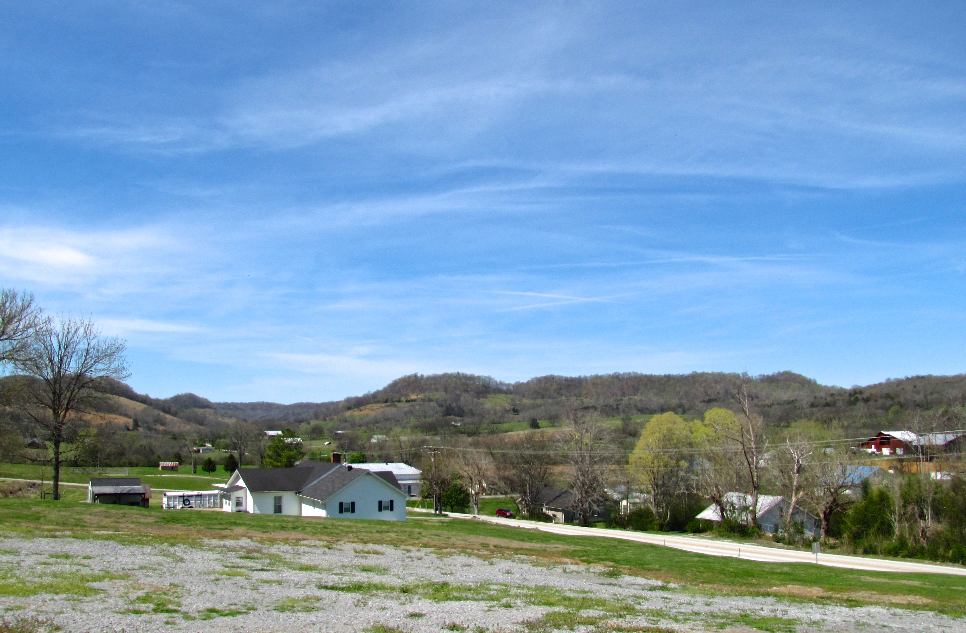 Tennessee State Route 85 passing through Kempville, Tennessee, United States, looking west from the Old Time Methodist Church parking lot.